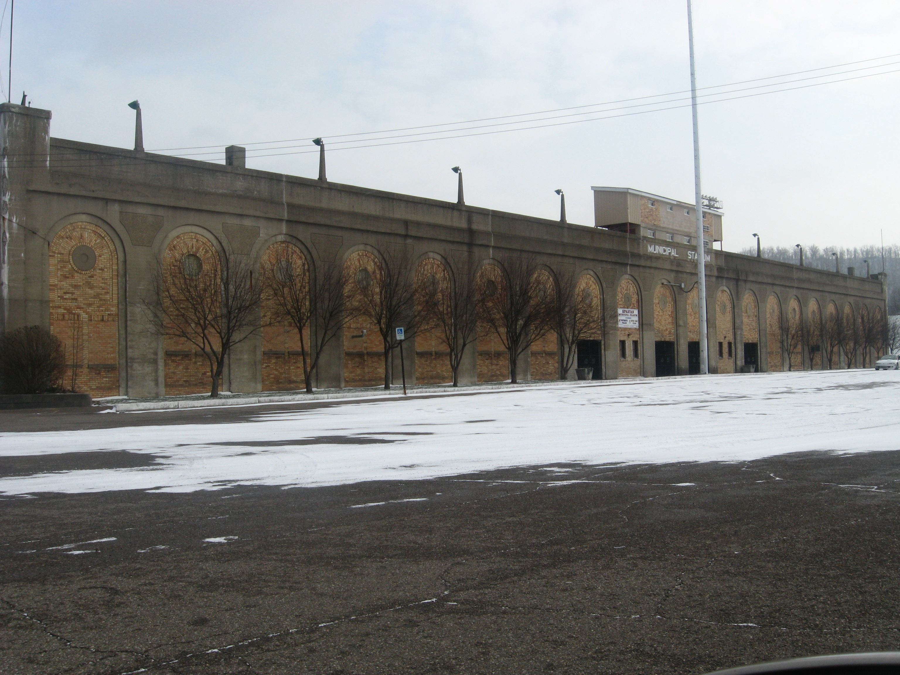 A photo of Spartan Stadium in Portsmouth, Ohio